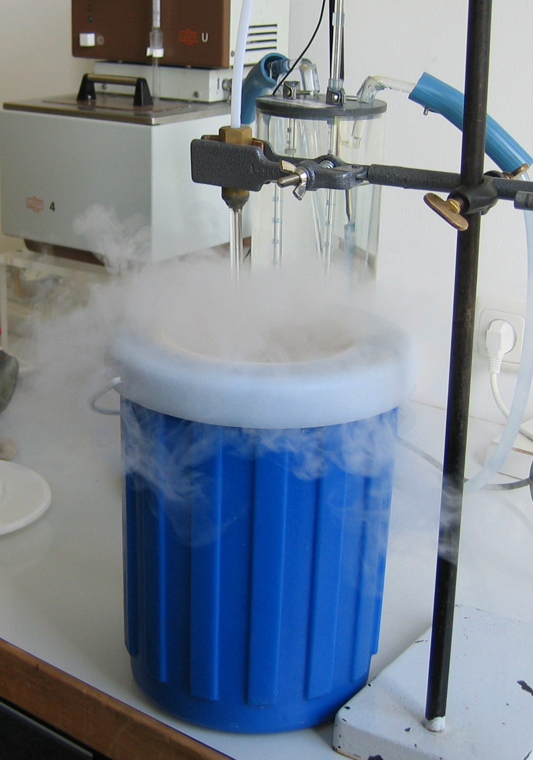 Evaporation of liquid nitrogen out of a dewar flask.